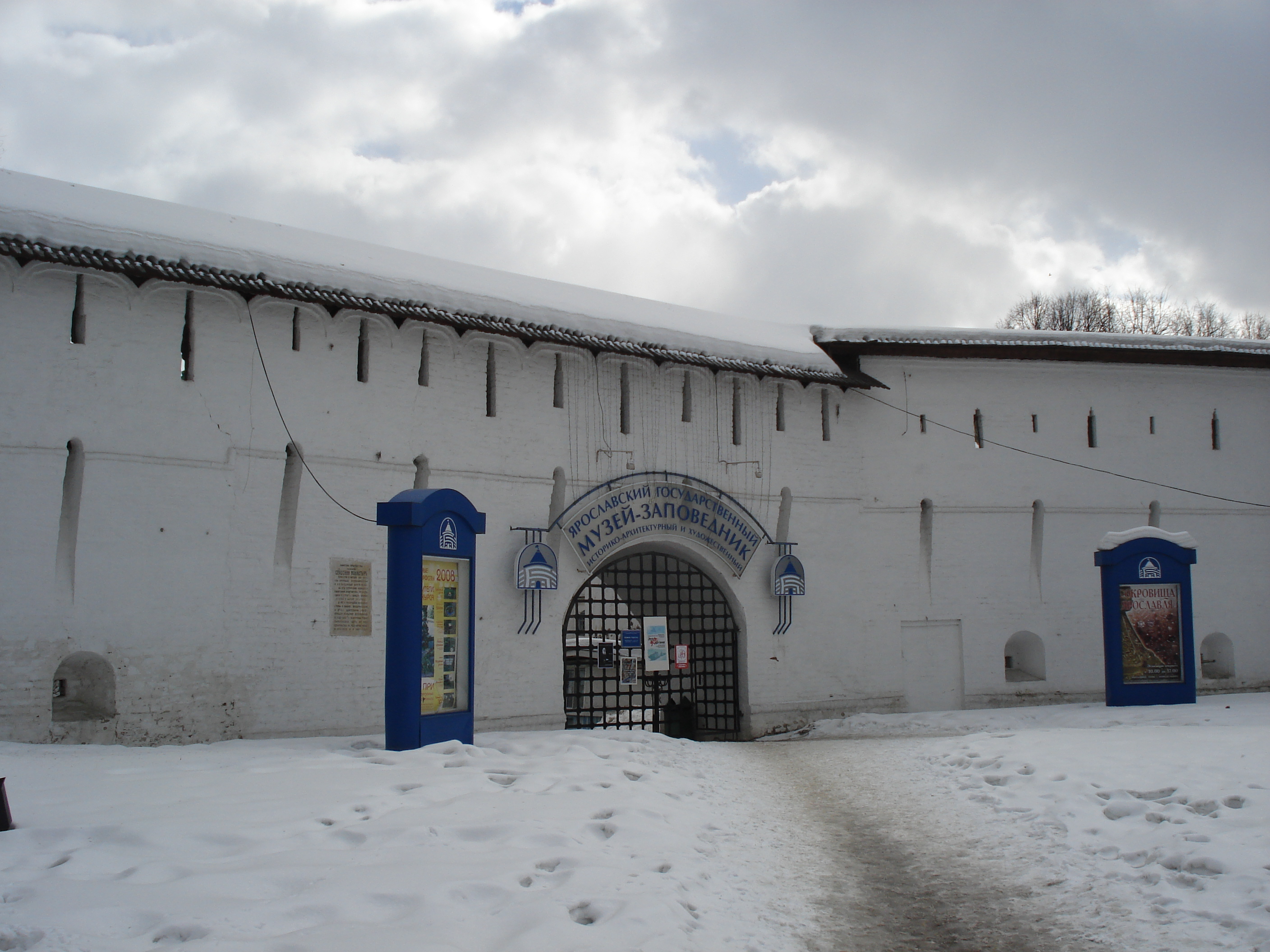 Front gates of Spaso-Preobrazhensky Monastery (Yaroslavl)